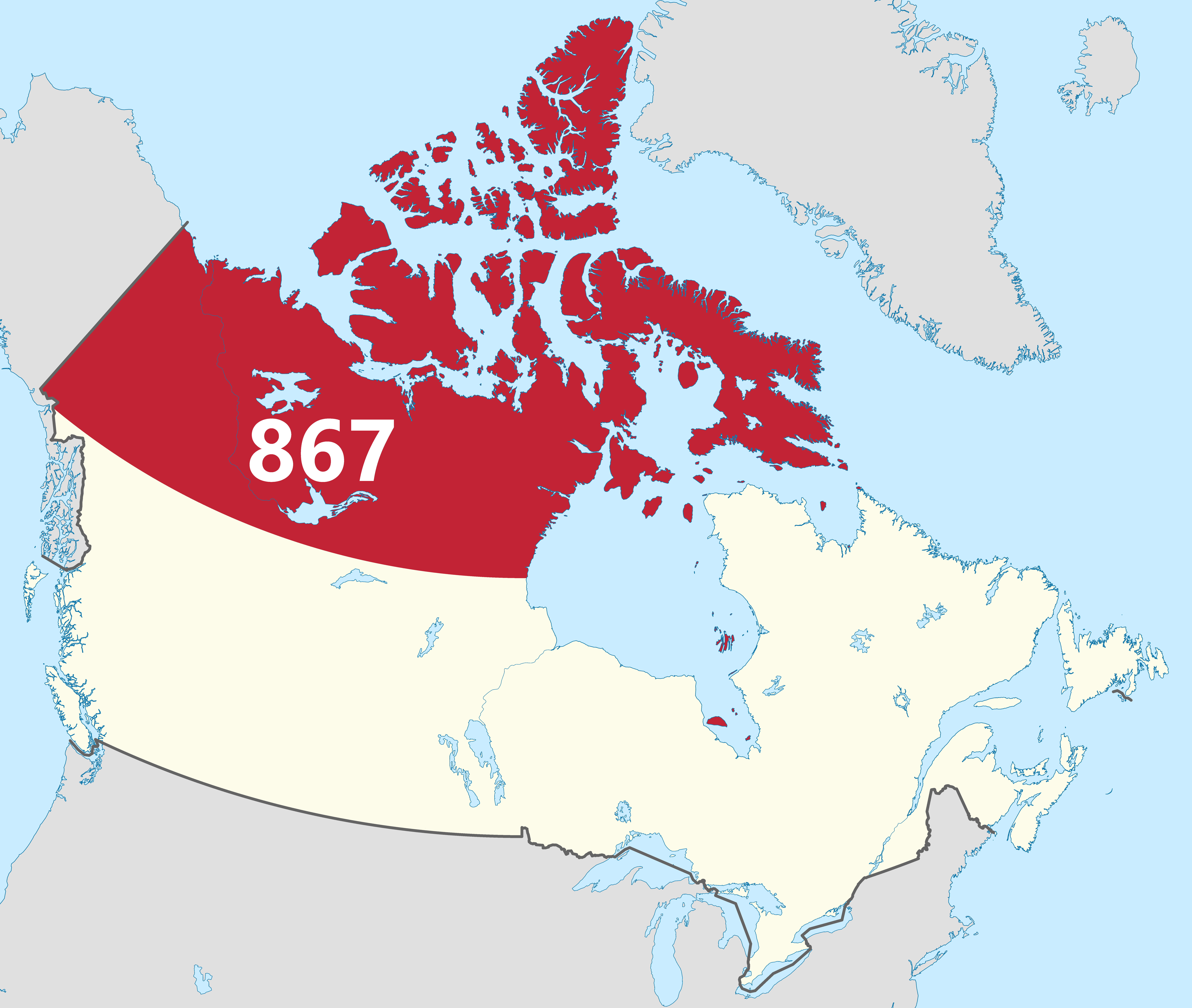 Area code location for 867